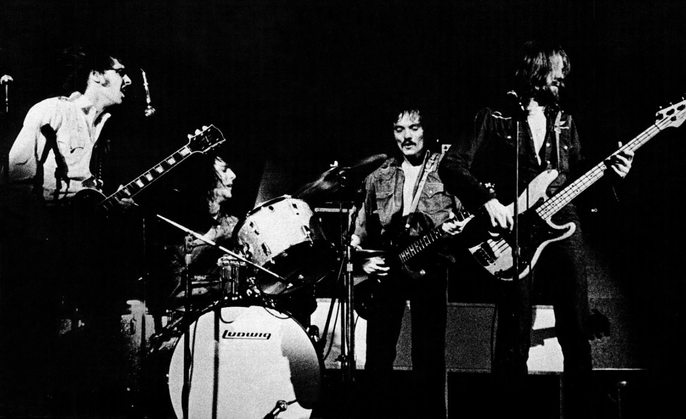 Trade ad for Humble Pie's single "I Don't Need No Doctor". To better adapt it to his respective Wikipedia article, the ad was cropped and cleaned in a graphics editing program. The original can be viewed at the source below.